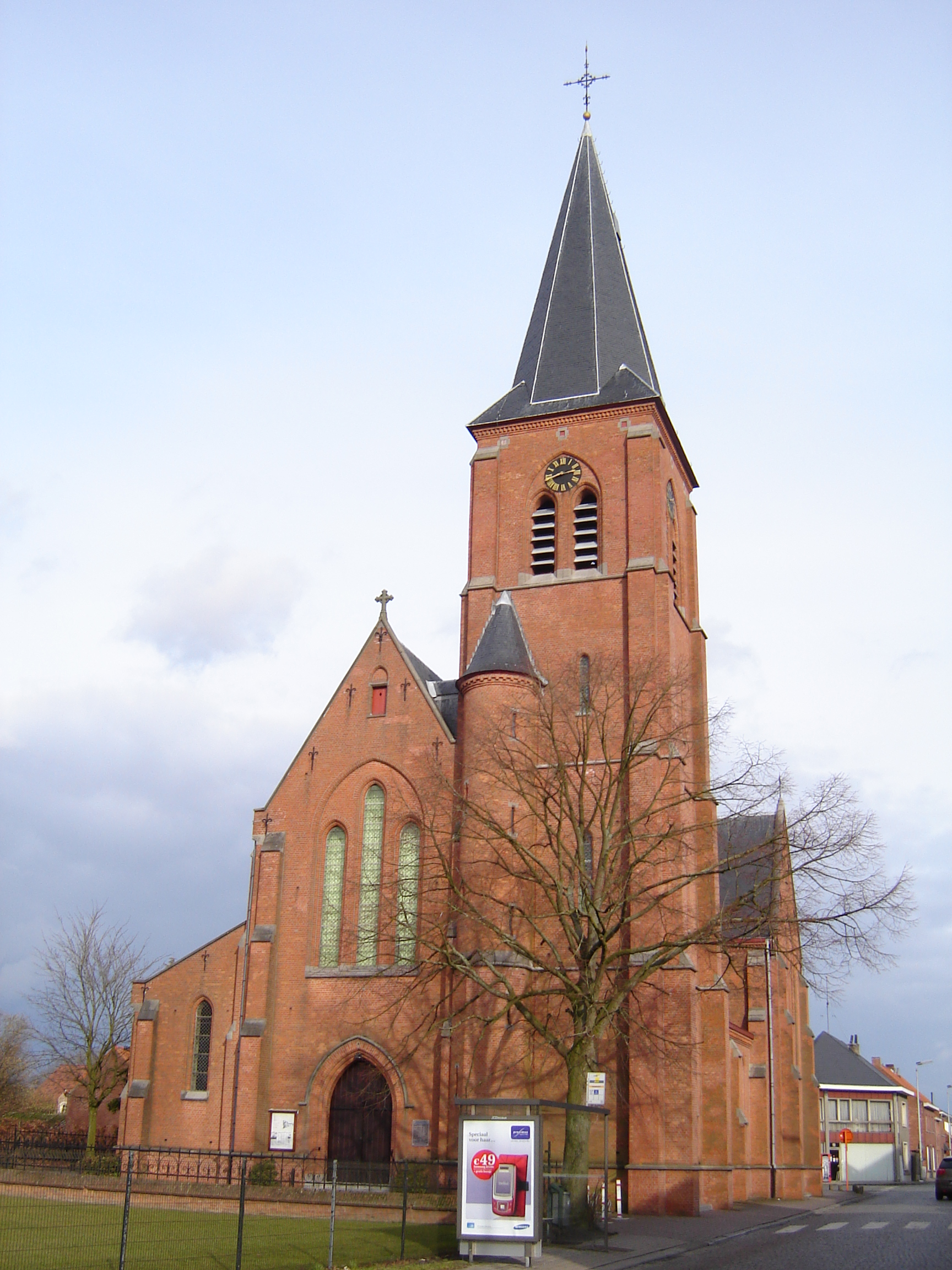 Church of Saint Job in Puivelde. Puivelde, Belsele, Sint-Niklaas, East Flanders, Belgium